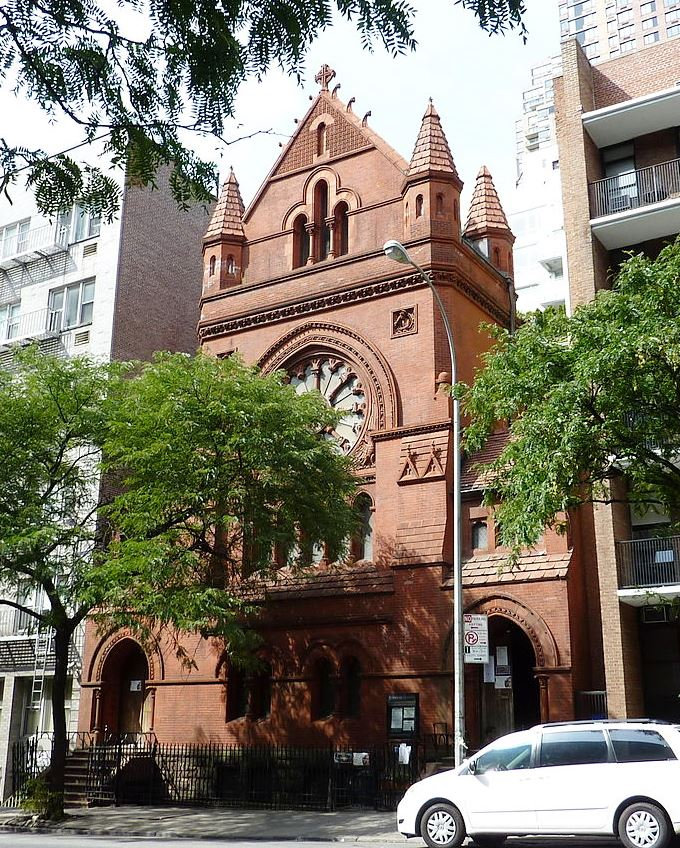 Lutheran Church For All Nations